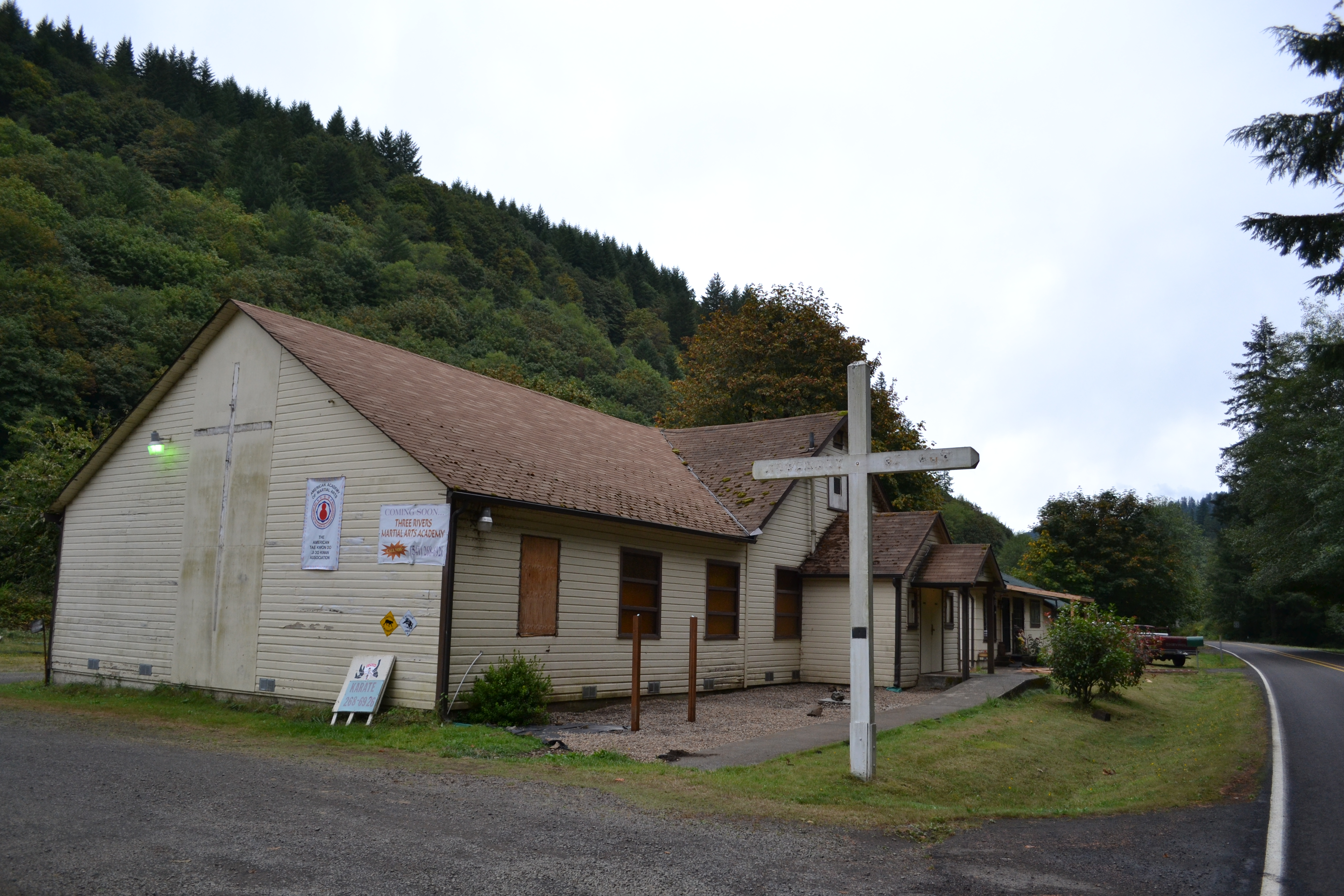 Unchurched Belt: The only church in Tide, Oregon, is now a center for martial arts.